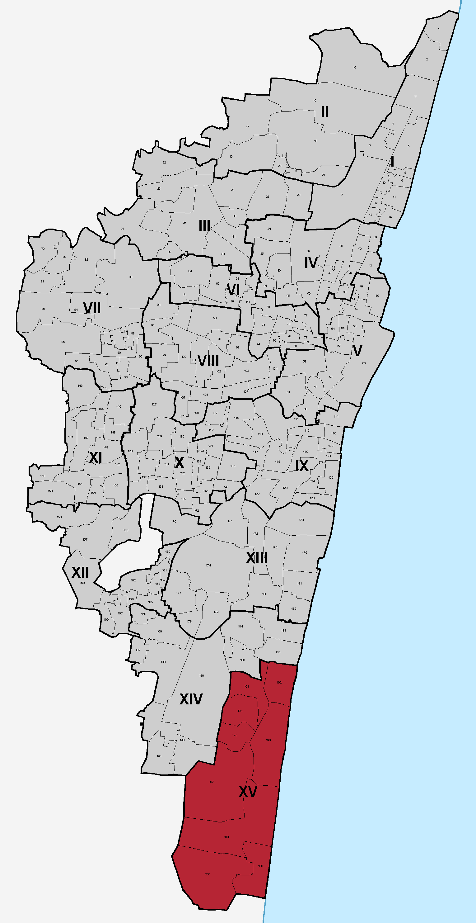 Location of Sholinganallur zone in Chennai